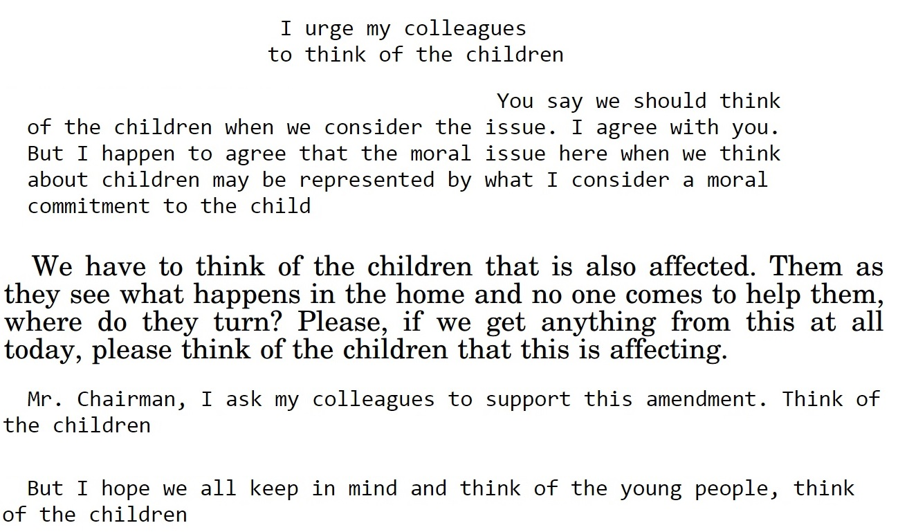 "Think of the children" rhetoric used by five different politicians in United States Congress.